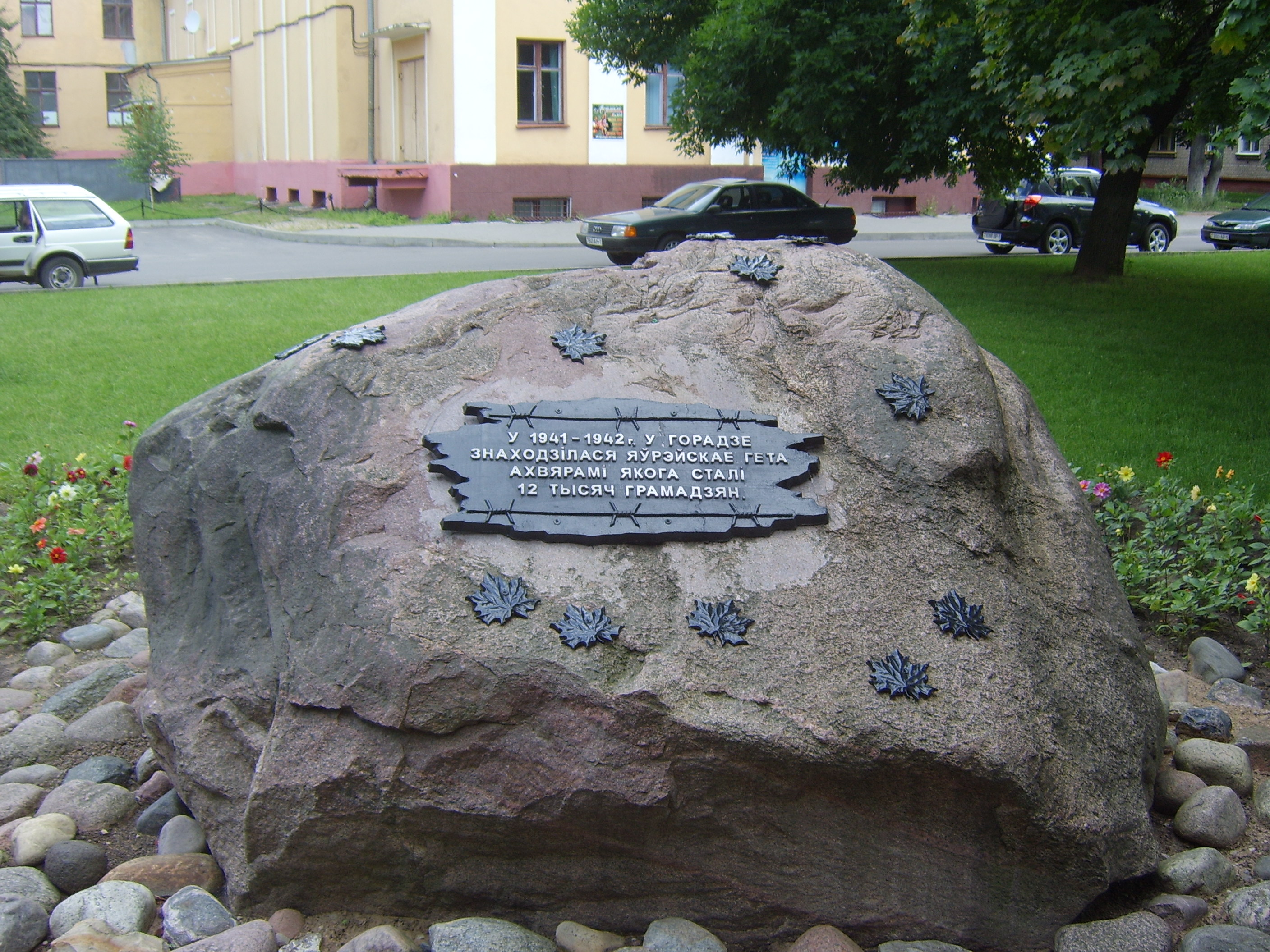 Monument Ghetto in Baranavichy 1941-1942